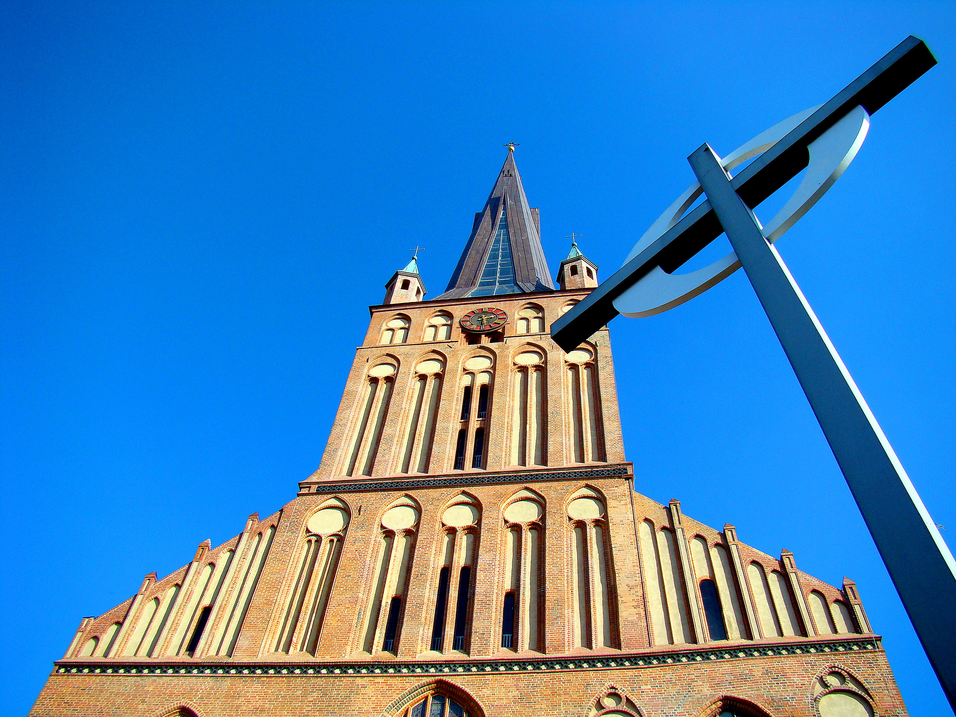 Cathedral Basilica of St. James the Apostle, Szczecin, Poland